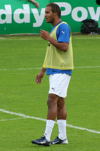 Younes Kaboul with Tottenham